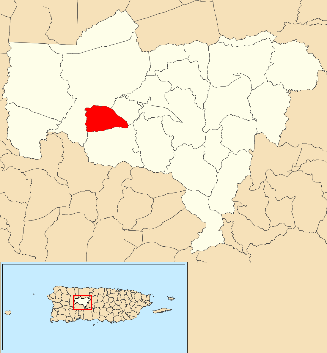 Roncador, Utuado, Puerto Rico locator map